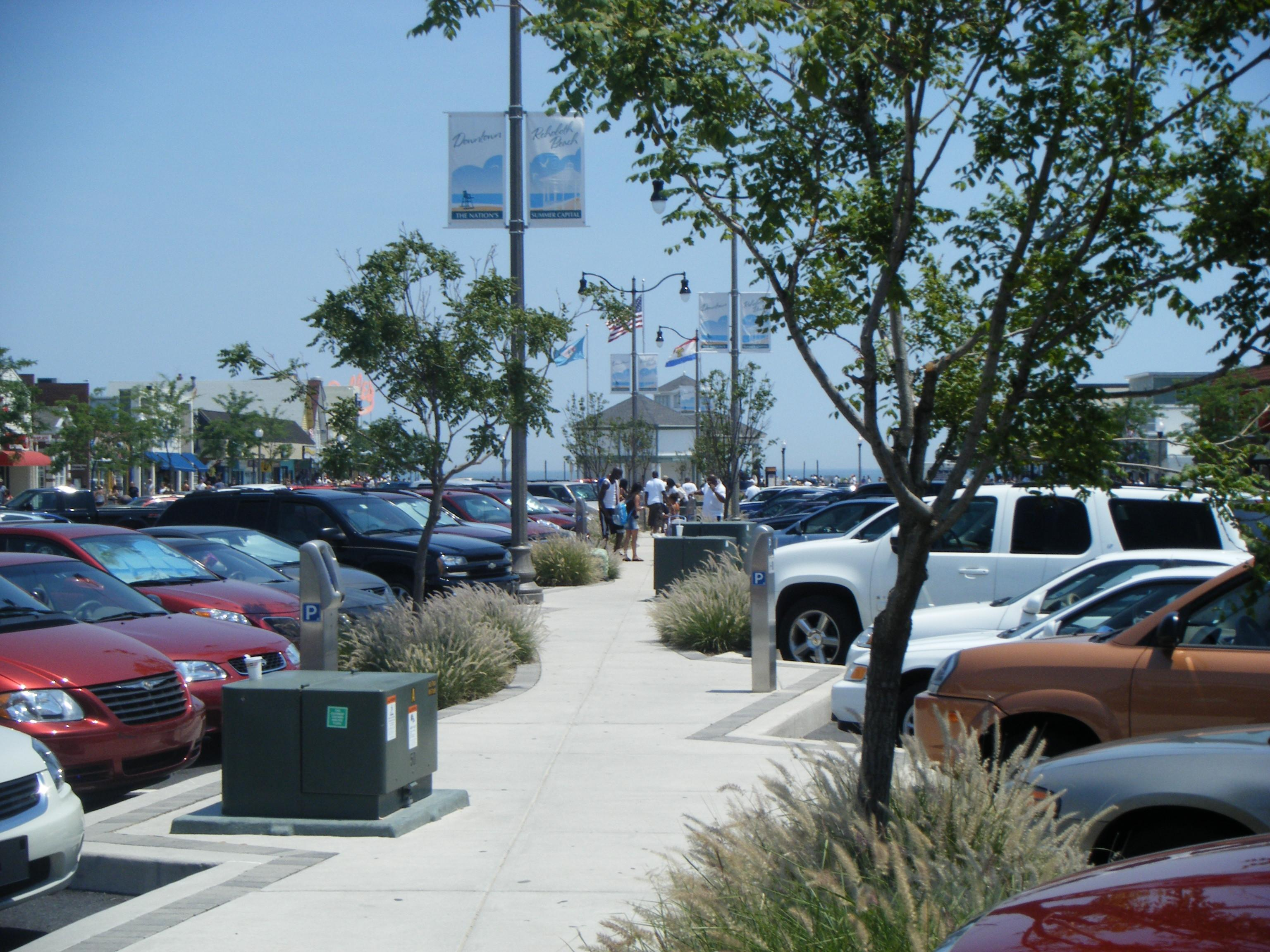 Eastbound Rehoboth Avenue past the intersection with First Street in Rehoboth Beach, Delaware, looking toward the Atlantic Ocean